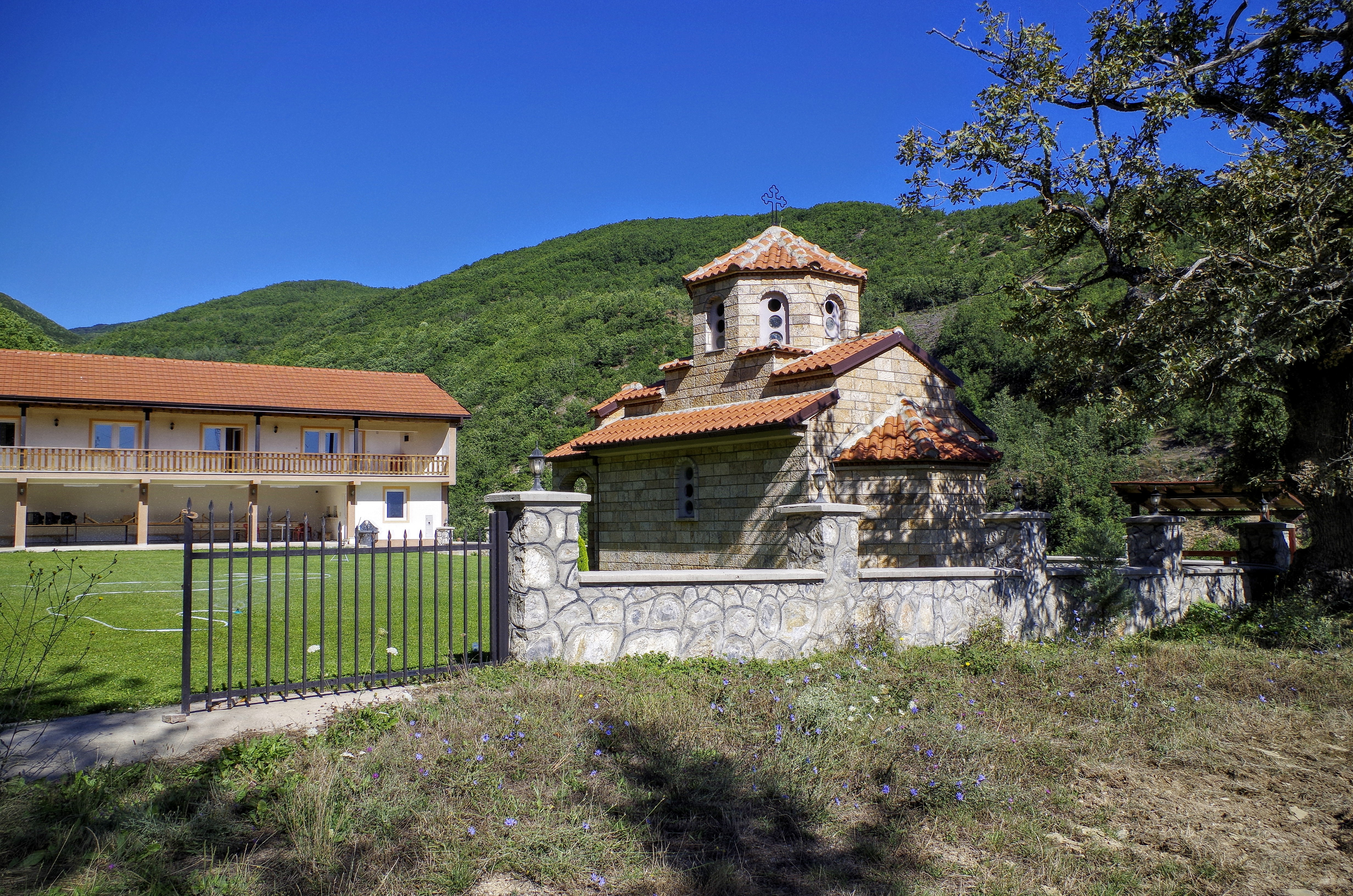 New Church of the Theotokos in the village Botun, Macedonia